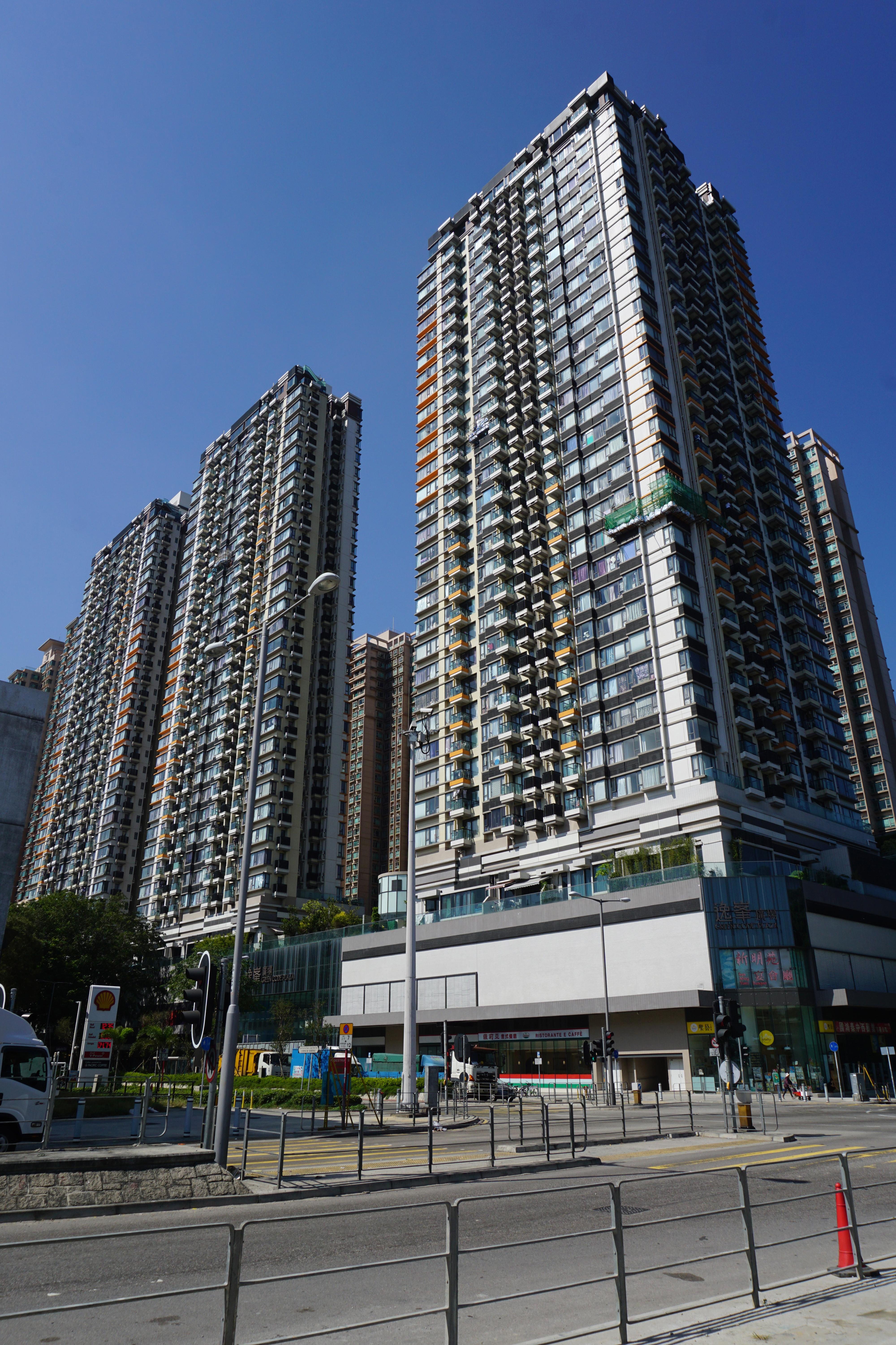 Green Code in Luen Wo Hui, Hong Kong.